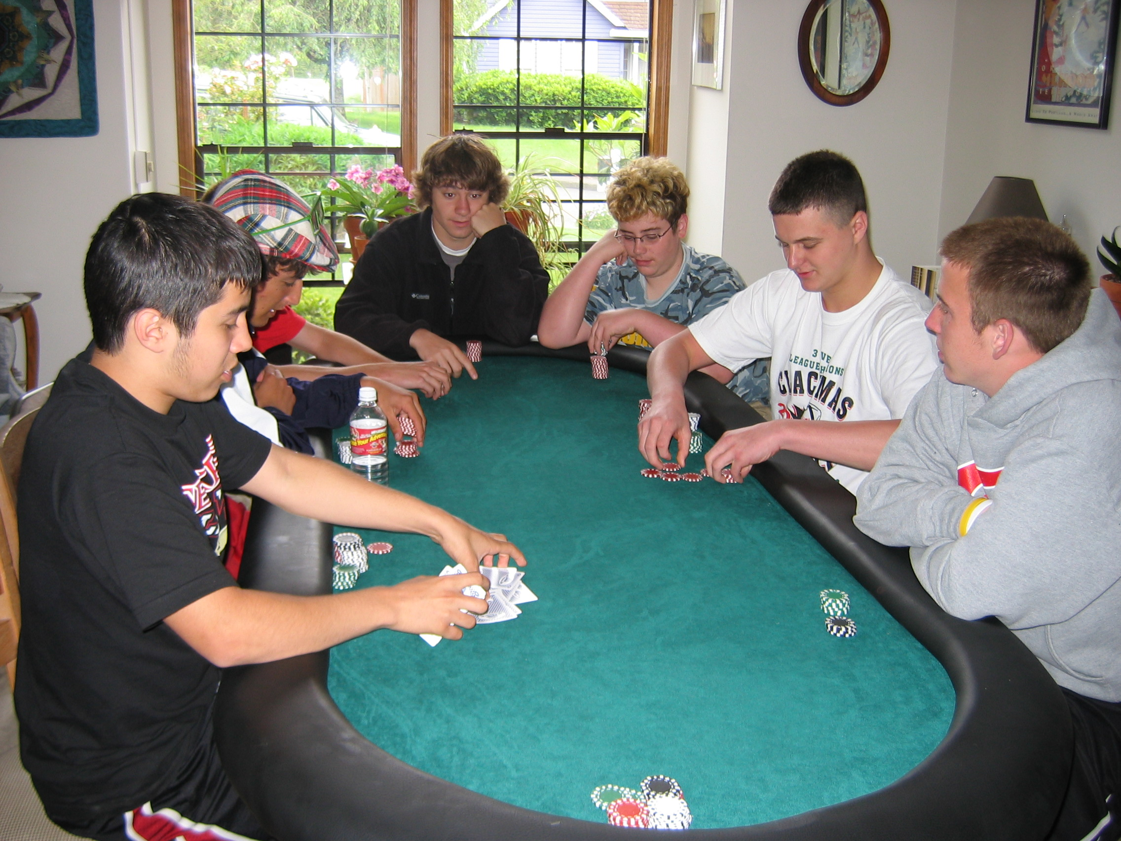 A poker tournament in progress. Taken by me.